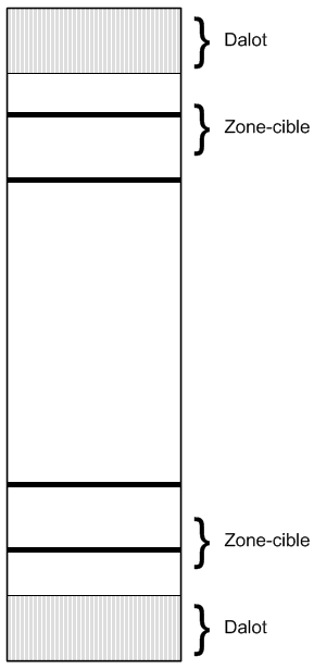 Mississippi table diagram (not at scale)